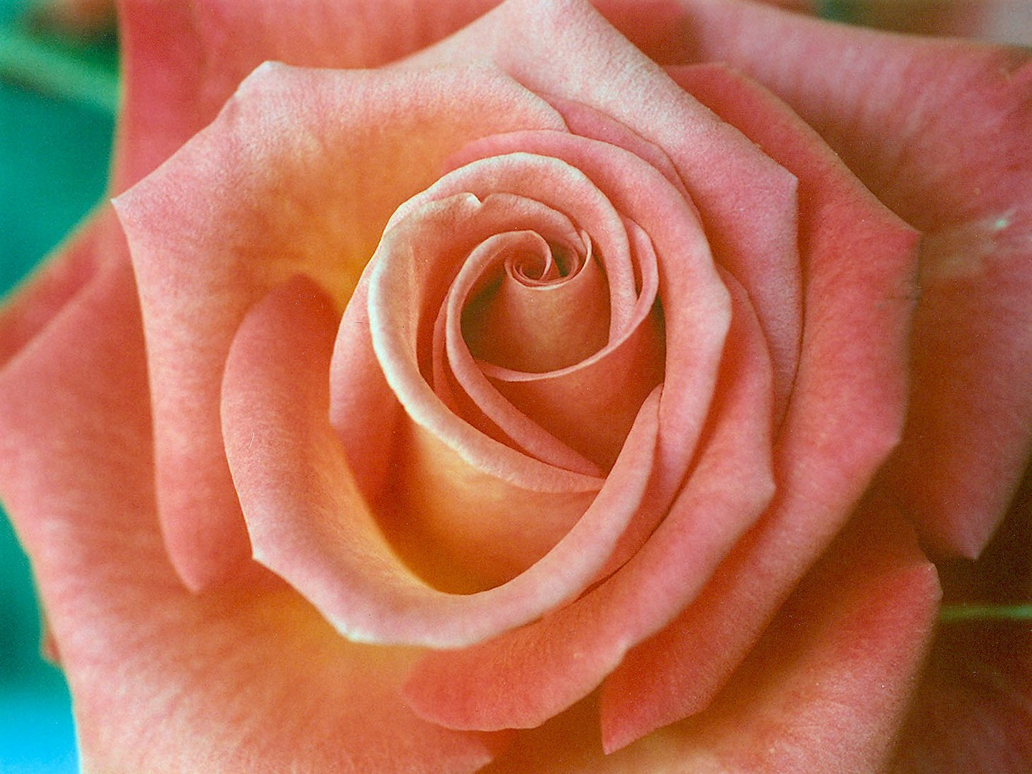 Salmon color rose photograph taken by Nancy Wong in San Francisco.